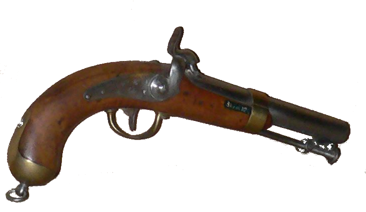 French Navy pistol, 19th Century